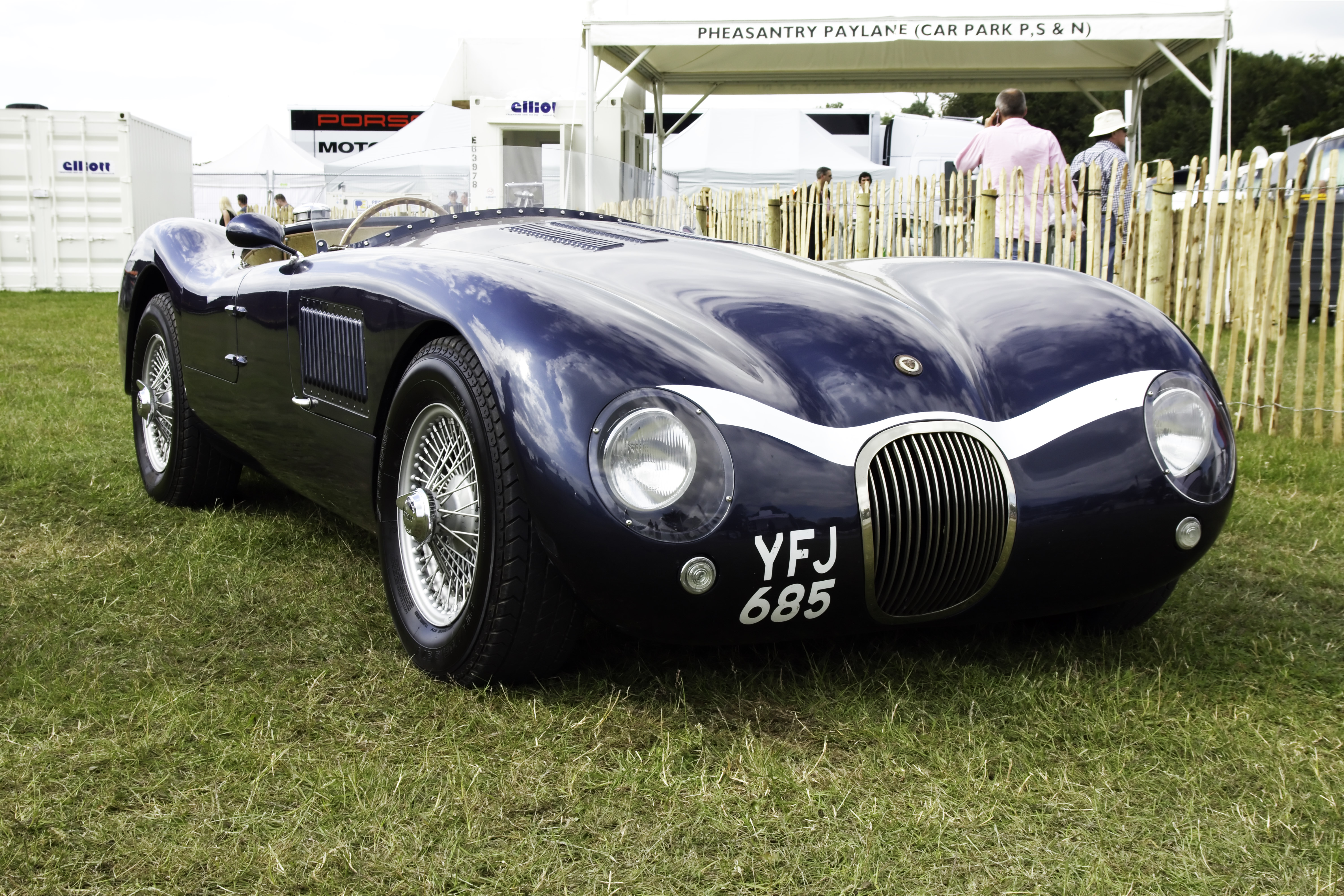 Jaguar C type